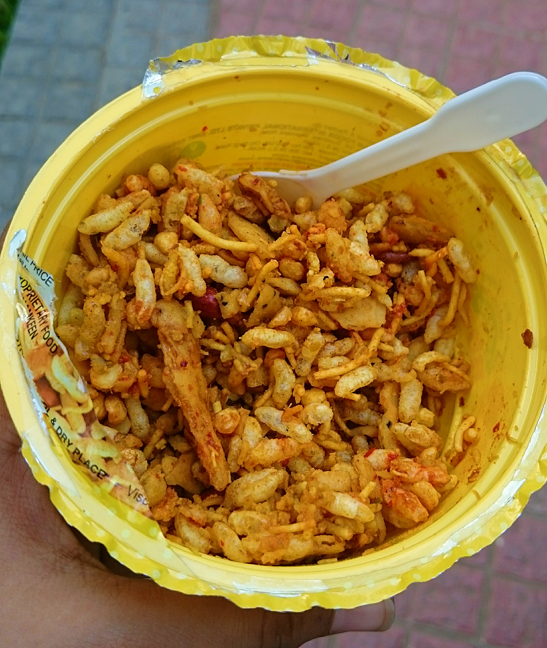 Assorted Indian masala snacks-Bhel Puri